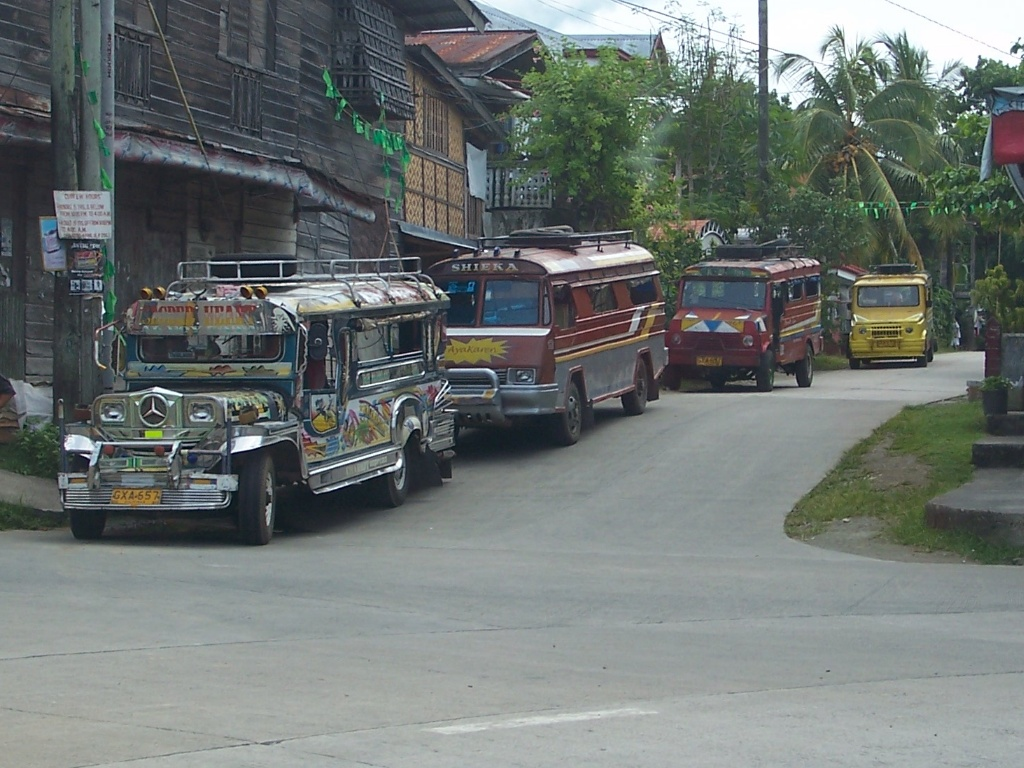 Different types of Jeepneys in Bohol